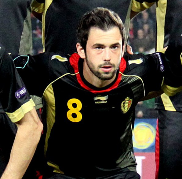 Steven Defour, Belgium against the Austrian national football team (0:2), 2011-03-25 in Vienna (Ernst-Happel-Stadion